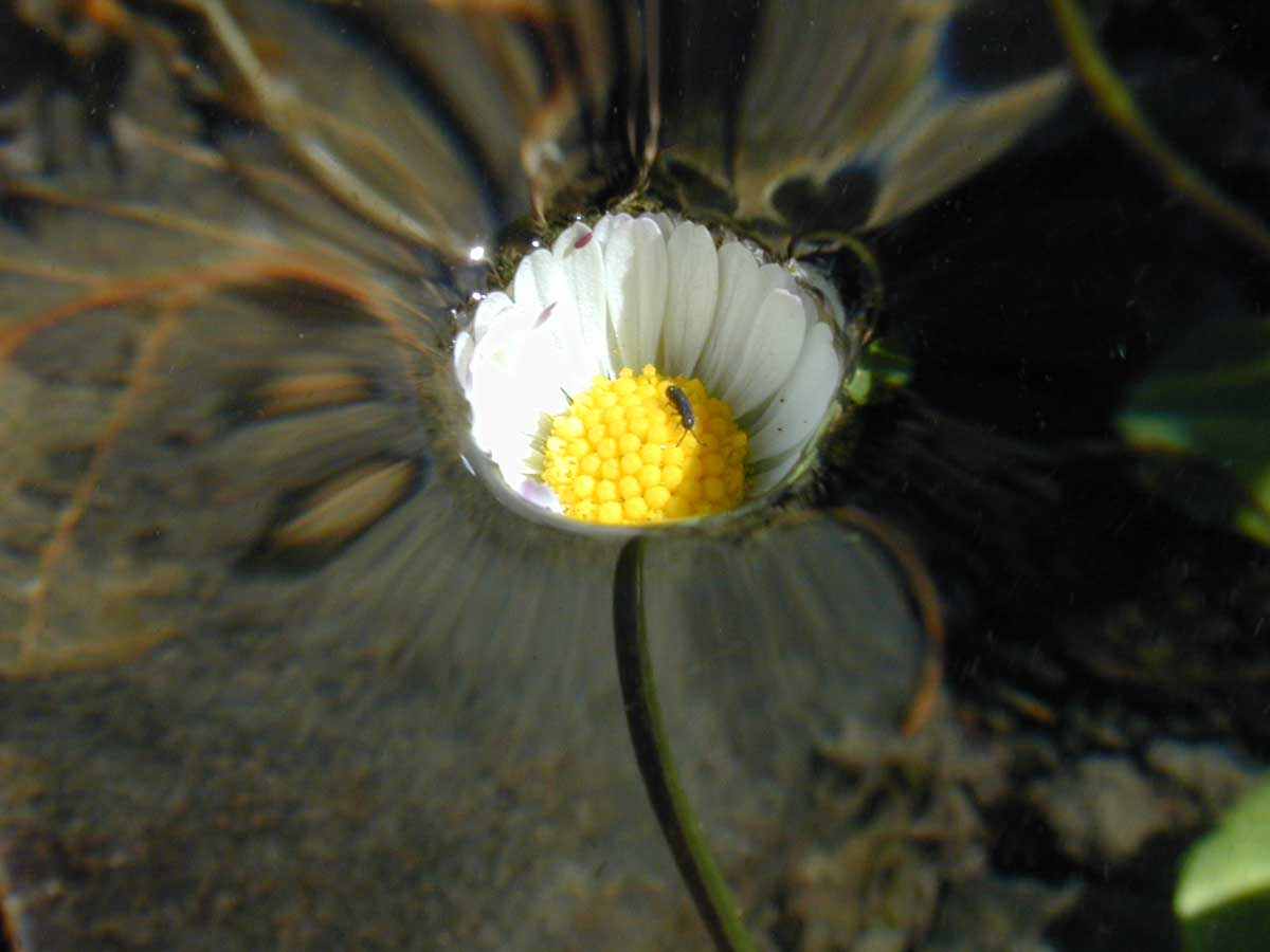 A daisy. The flower is under the water level, which has risen gently and smoothly. Hence surface tension prevents the water from submerging the flower.